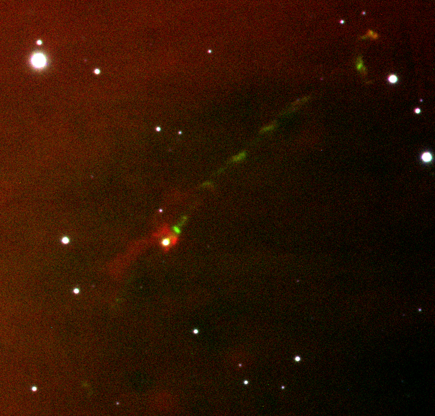 The HH 1165 jet launched by a brown dwarf in the outer periphery of the sigma Ori cluster. Traced by emission from singly ionized sulfur, which appears green in the image, the jet extends 0.7 light years (equivalent to 0.2 parsecs) northwest of the brown dwarf.Image use